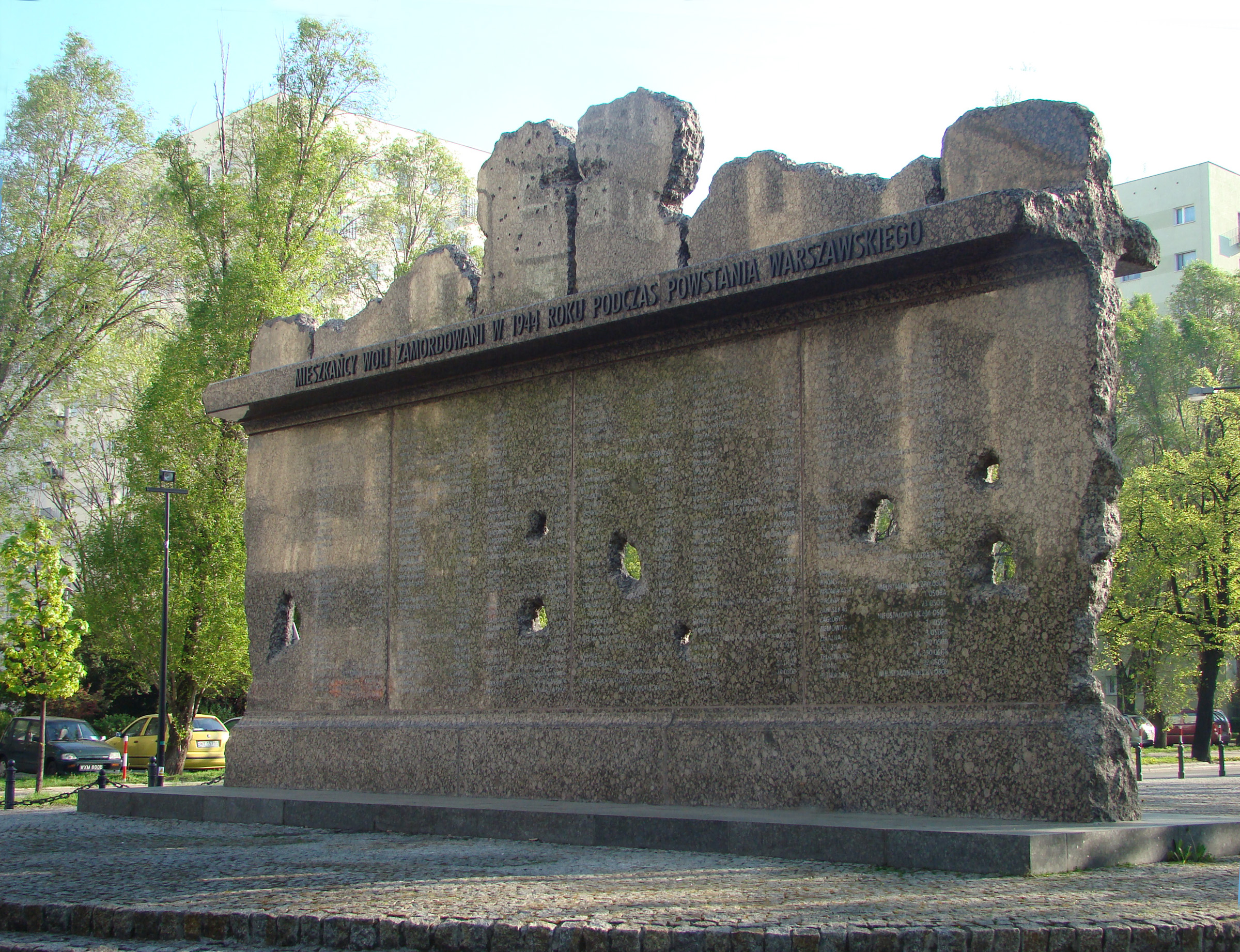 Wola massacre victims memorial